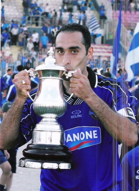 Noel Turner, Maltese footballer